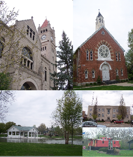 abcdefg